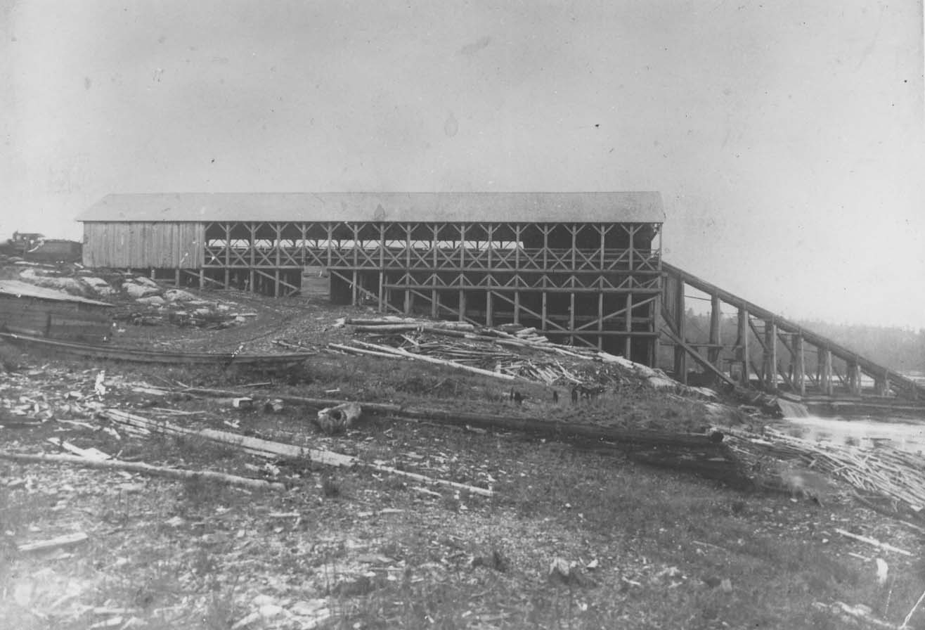 This jack ladder was used to raise logs from Lake Nipissing to cars on the Nosbonsing and Nipissing Railway - the engine of one train can be seen on the left. The lift was powered by a waterwheel in the Wasi Falls, just beyond this image, connected to the lift by a rope. The image is looking to the south, with Nipissing on the right. The line ran 5.5 miles east to Lake Nosbonsing where the logs were dropped into the lake and then floated down the Mattawa River to JR. Booth's lumber mill in Ottawa.